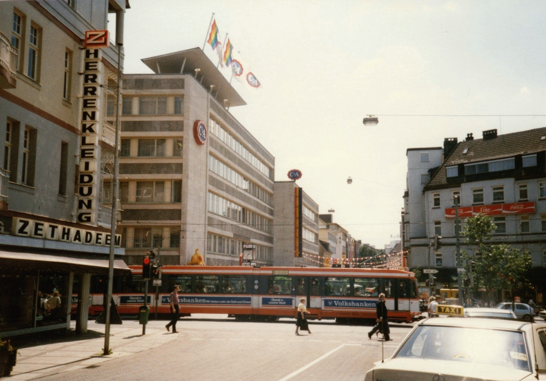 Bielefeld Tram Feilenstr./ Bahnhofstr. in 08.1989